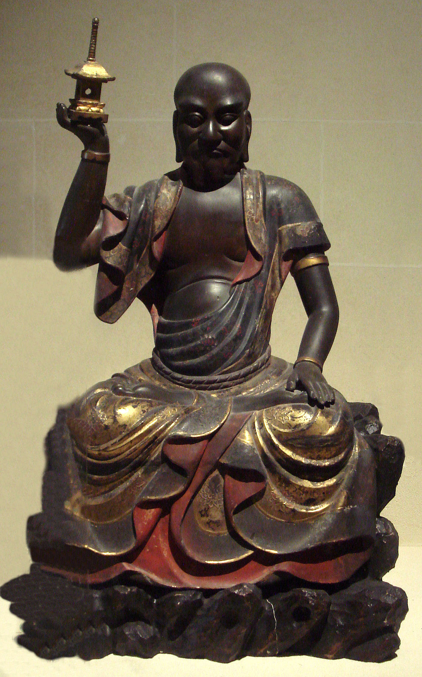 Iñgada Sonja